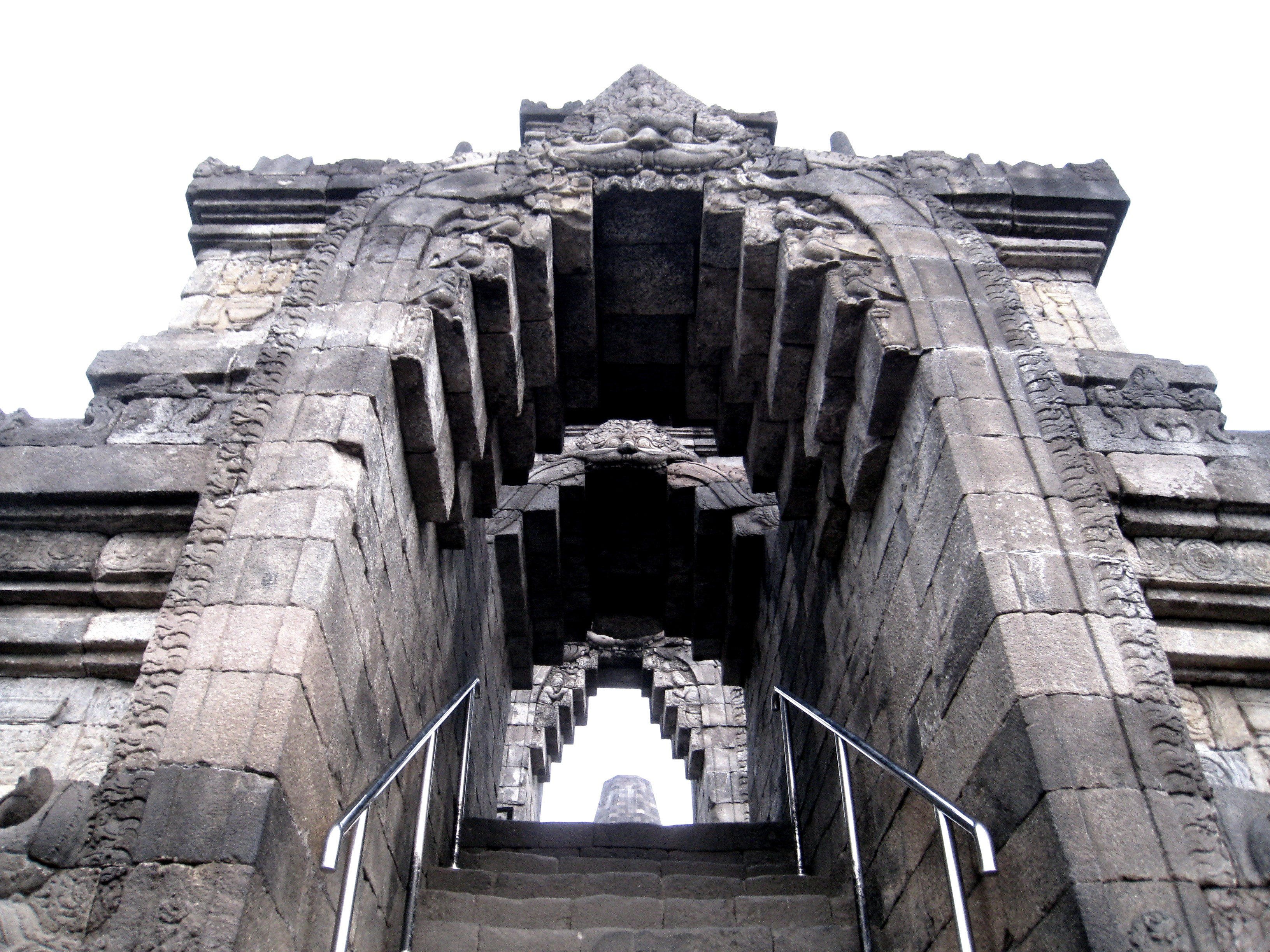 046 Staircase at Borobudur, Java View of a staircase at Borobudur in Java, Indonesia taken by Anandajoti.